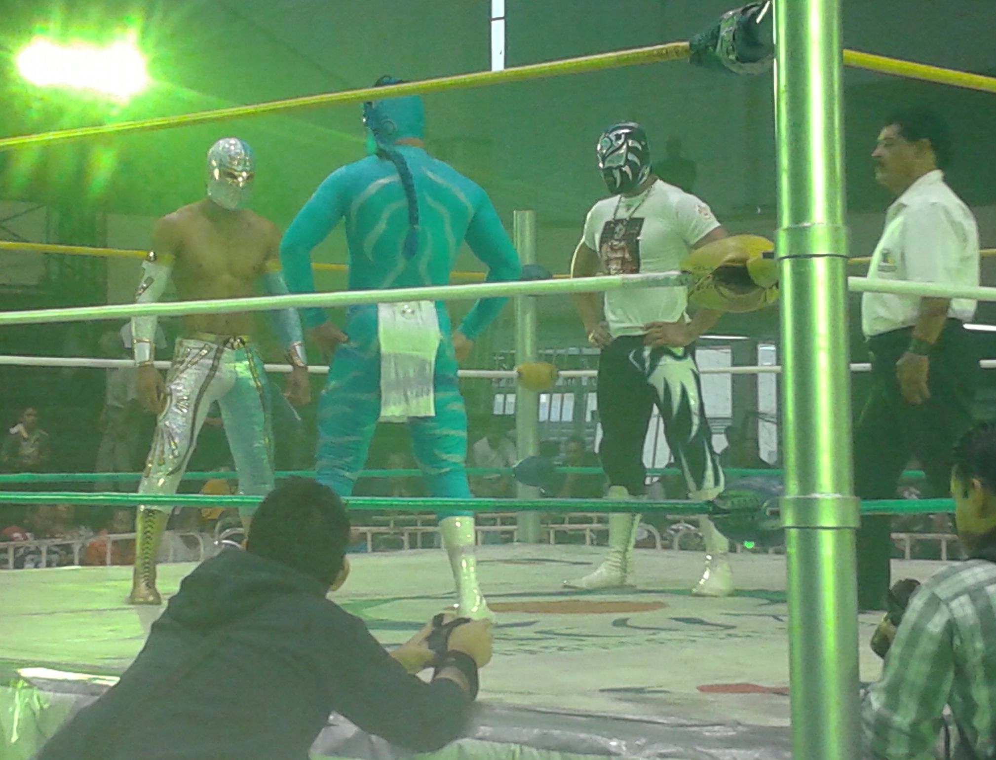 Místico II, Volador, Jr. and La Sombra on May 12, 2013 in Gimnasio Nuevo León of Monterrey, Nuevo León.